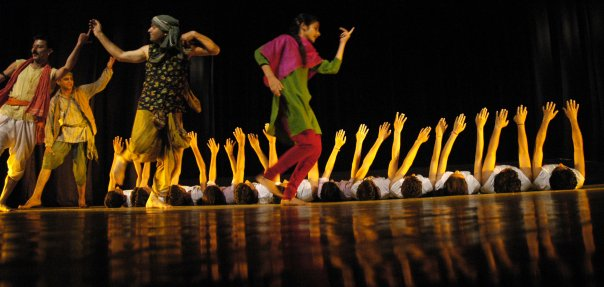 Dogri play Bawa Jitto directed by Balwant Thakur Produced in 1986 and still going strong